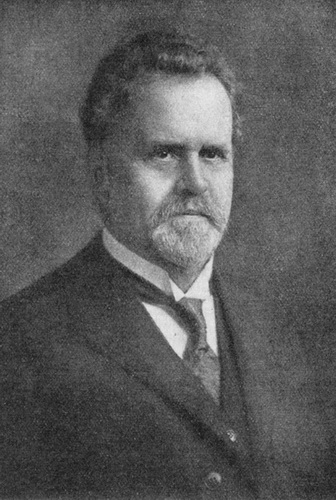 Dr. Alois Velich (1869-1952) was a Czech physiologist and pathologist.